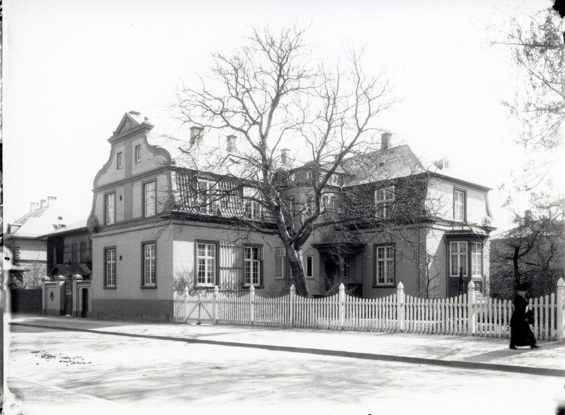 Sylvester Hvids Villaat Amalievej 2 in Frederiksberg, Copenhagen, Denmark